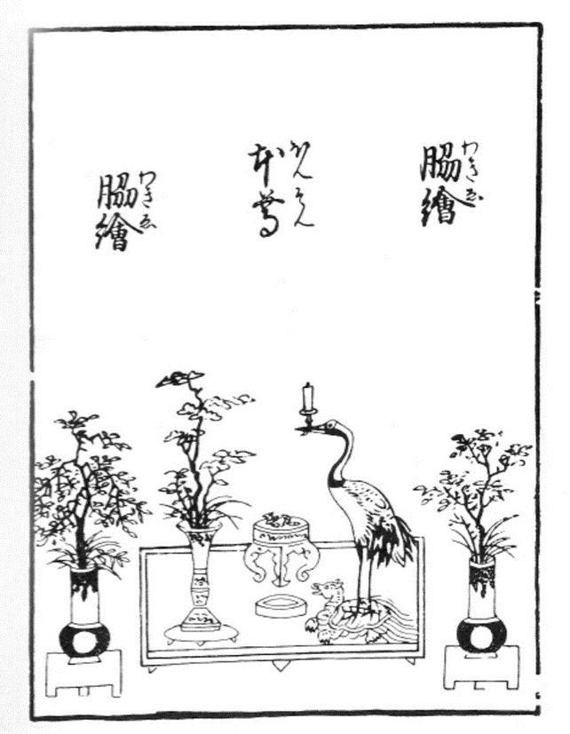 A drawing of flowers arranged as part of mitsu-gusoku, from the Senden-shō.